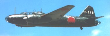 Mitsubishi G4M "Betty" of 801st Air Group, 703rd Reconnaissance Flight Corps.